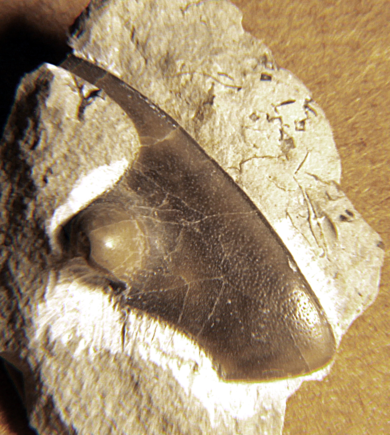 A right librigena (free cheek) of the trilobite Vogesia bromidensis, commonly known as Homotelus bromidensis, 17mm measured across the outer rim, collected from the Bromide Formation, Oklahoma, USA, from the Upper Ordovician (early Sandbian). This image should not be rotated as the front of the animal is at the top of the image.